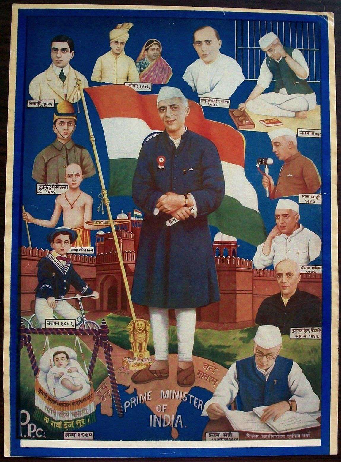 Nehru's life, depicted in a poster probably from the 1950's; *another such view* Source: ebay, Nov. 2013